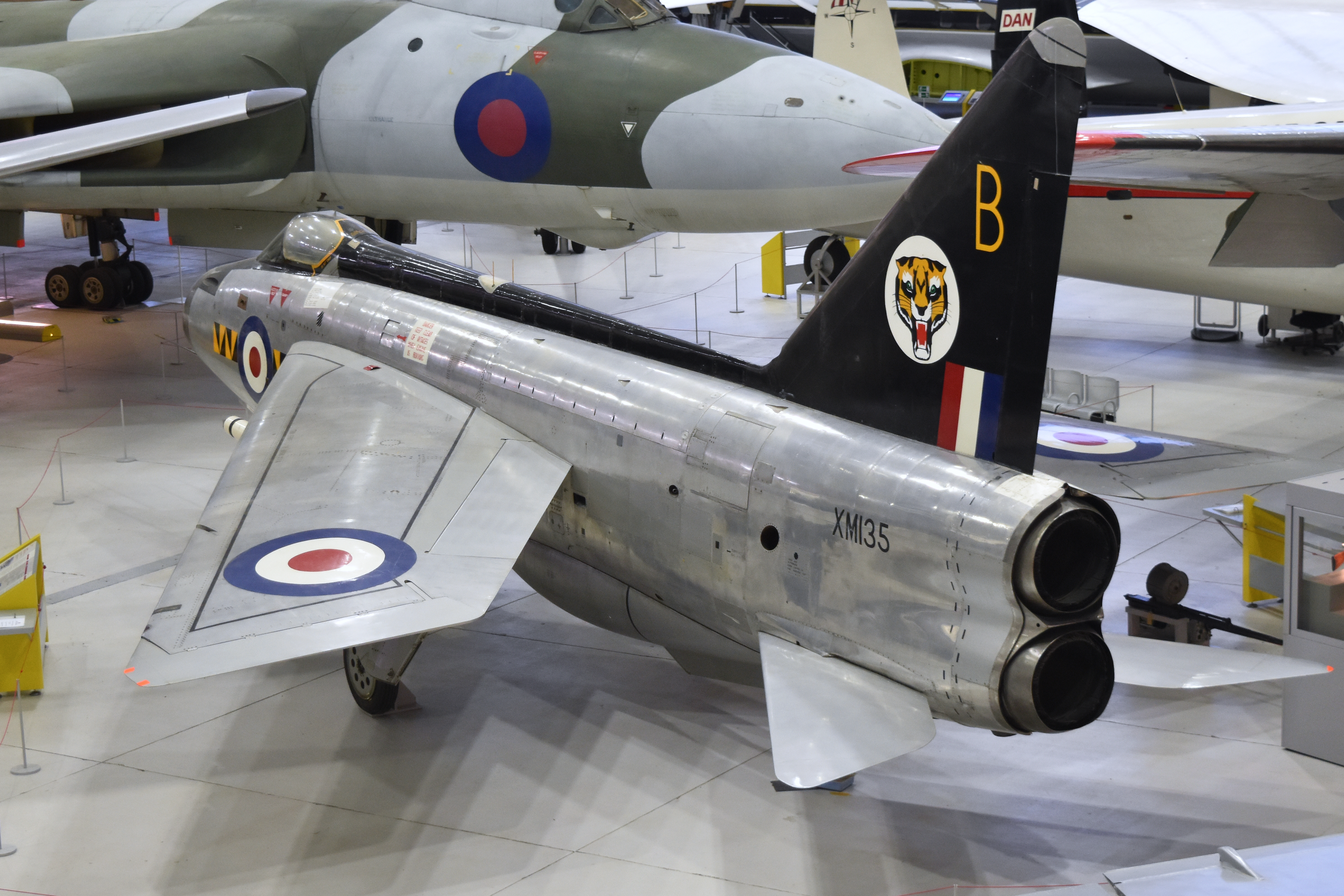 c/n 95031. Built 1959, first flight 14th November 1959, delivered 25th May 1960. Retired and delivered to Duxford on 20th November 1974. Returned to her genuine 74sqn markings, she is on display in the ‘AirSpace’ hangar at the Imperial War Museum, Duxford Airfield, Cambridgeshire, UK. 26th January 2018 The following history for XM135 comes from the IWM website:- “This aircraft, XM135, was the second production Lightning. It served with the Air Fighting Development Unit at RAF Coltishall, Norfolk, for three years. It then joined No. 74 Squadron, and served until 1964 as part of the Fighter Command Aerobatic Team. After a period of storage and maintenance it joined the RAF Leuchars Target Facilities Flight in Fifeshire. The aircraft joined No. 60 Maintenance Unit in 1971, and was acquired by the Imperial War Museum in 1974. In 1966, an RAF engineer, Wing Commander ‘Taff’ Holden, accidentally flew the aircraft. While carrying out a ground test, he inadvertently activated the aircraft’s afterburners, and was forced to take off. He was able to land it safely. '‘I needed to do one more test. On opening the throttles for that final test, I obviously pushed them too far, misinterpreting the thrust…and they got locked into reheat… I had gained flying speed…and I had no runway left. I did not need to heave it off the runway, the previous test pilot had trimmed it exactly for take-off and with only a slight backward touch of the stick I was gathering height and speed… Once airborne, with adrenaline running rather high, I found myself in a rather unenviable position. No canopy, no radio, an unusable ejector seat, no jet flying experience, Comets and Britannias somewhere around me and speed building up…”